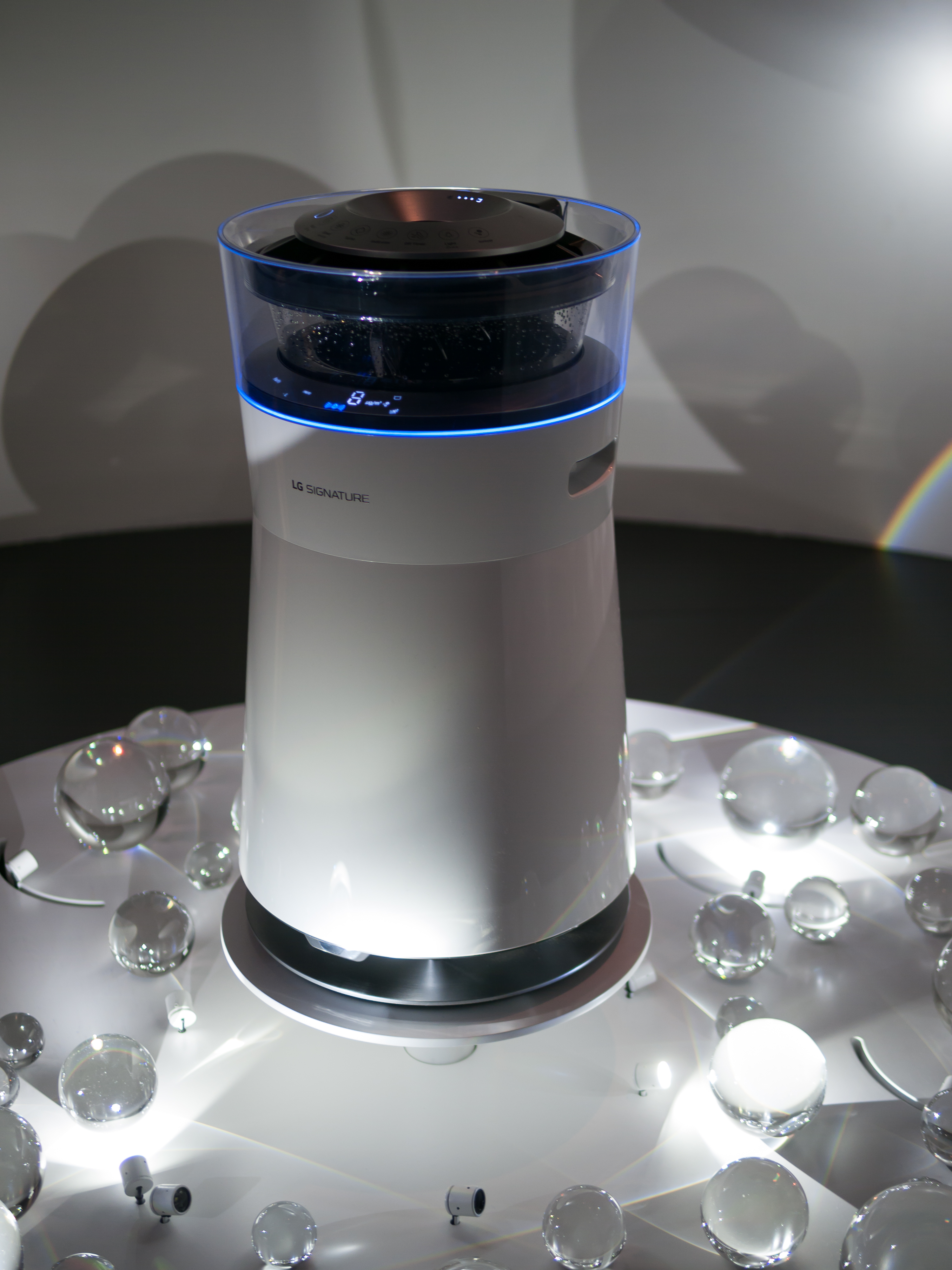 LG Signature LSA 50 A, Internationale Funkausstellung 2018, Berlin